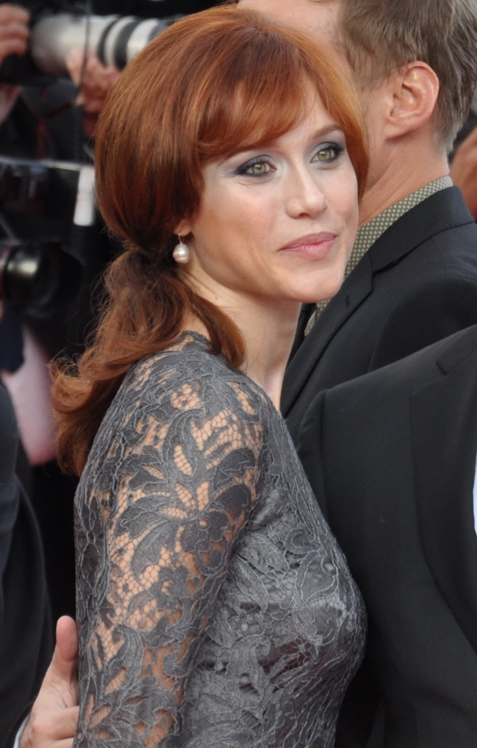 Gabriella Pession and Edward Allen Bernero at the 2013 Monte-Carlo Television Festival.